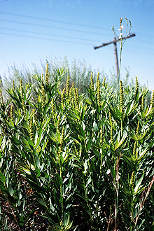 Flowering plant of Stillingia sylvatica